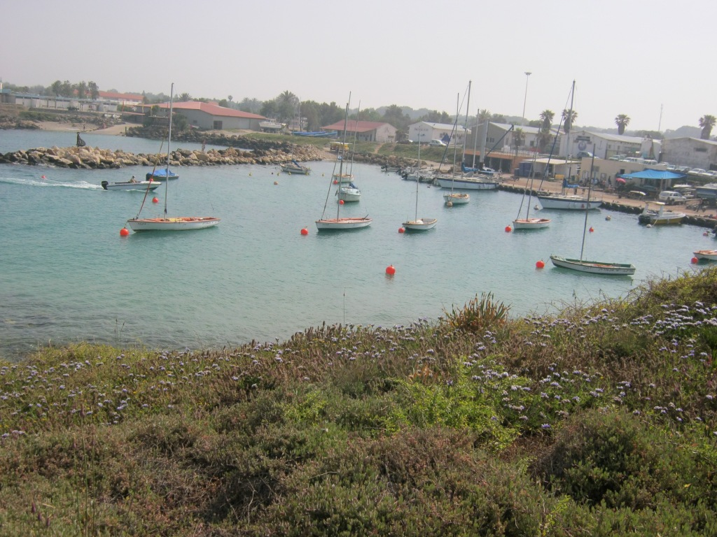 View at Tel Michmoret, Hasharon, Israel